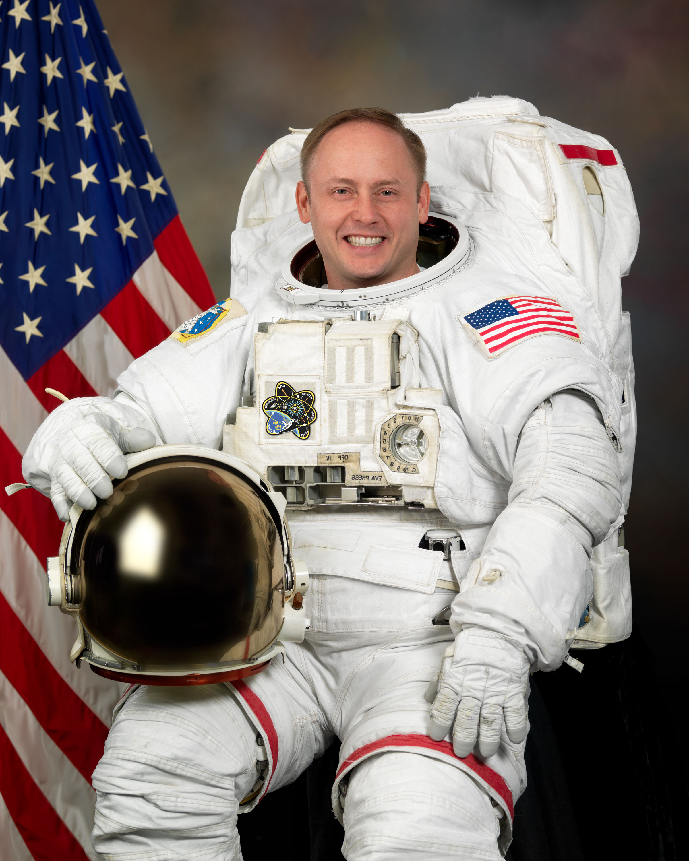 NASA astronaut E. Michael Fincke, mission specialist.